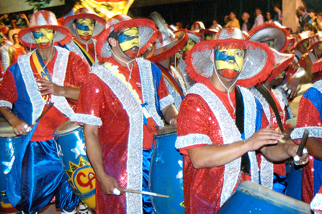 Montevideo Carnaval